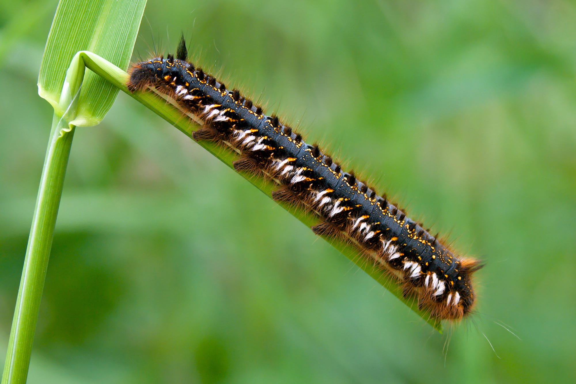 Mature caterpillar of the moth The Drinker, Euthrix potatoria, eating Reed canary-grass (Phalaris arundinacea). Head is on the bottom right side; body length ~60 mm.